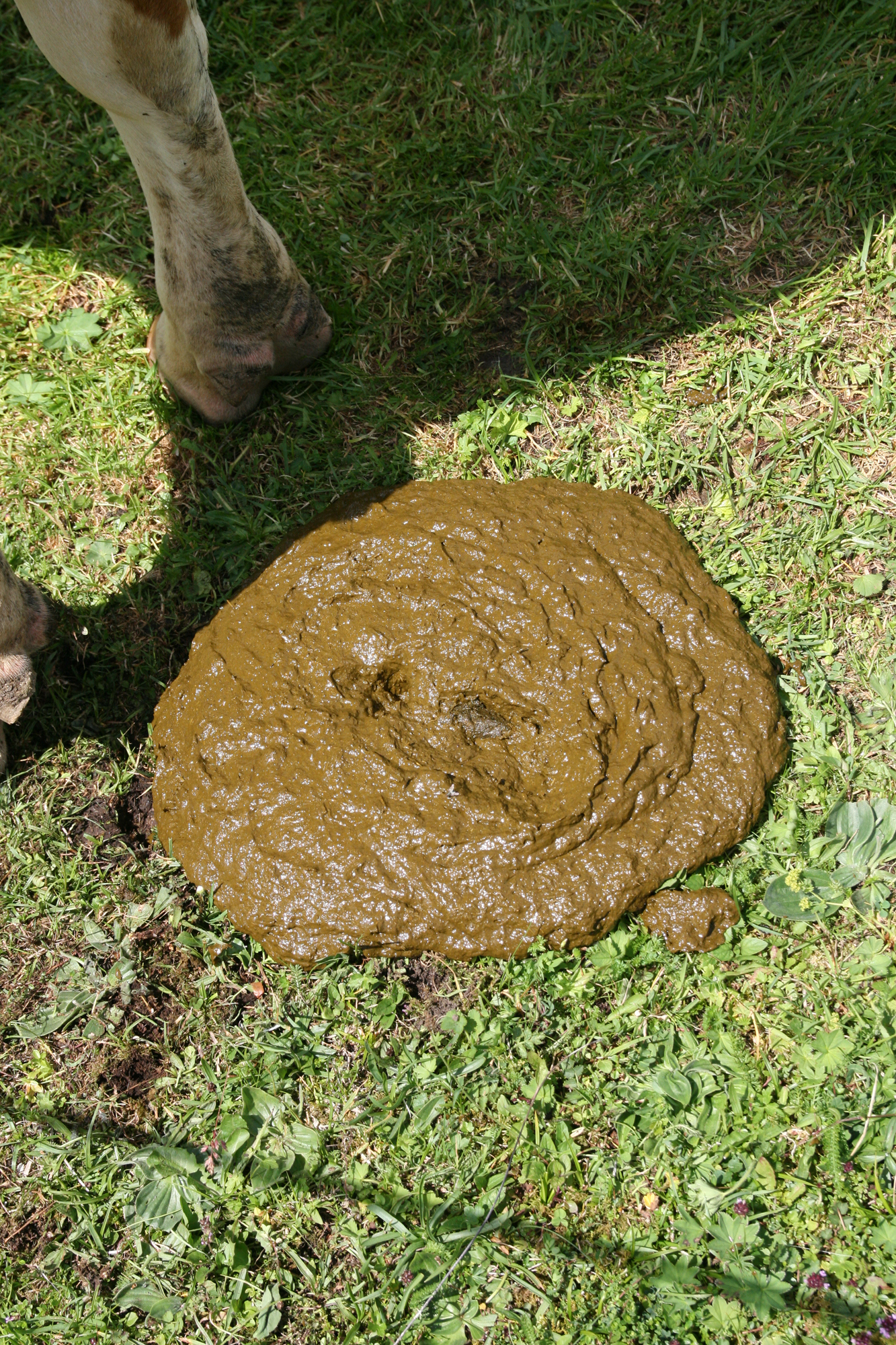 Description: Cattle, colloquially referred to as cows, are domesticated ungulates, a member of the subfamily Bovinae of the family Bovidae. As shown: Simmental is a brown-white cattle breed originating in the Simme valley in Switzerland